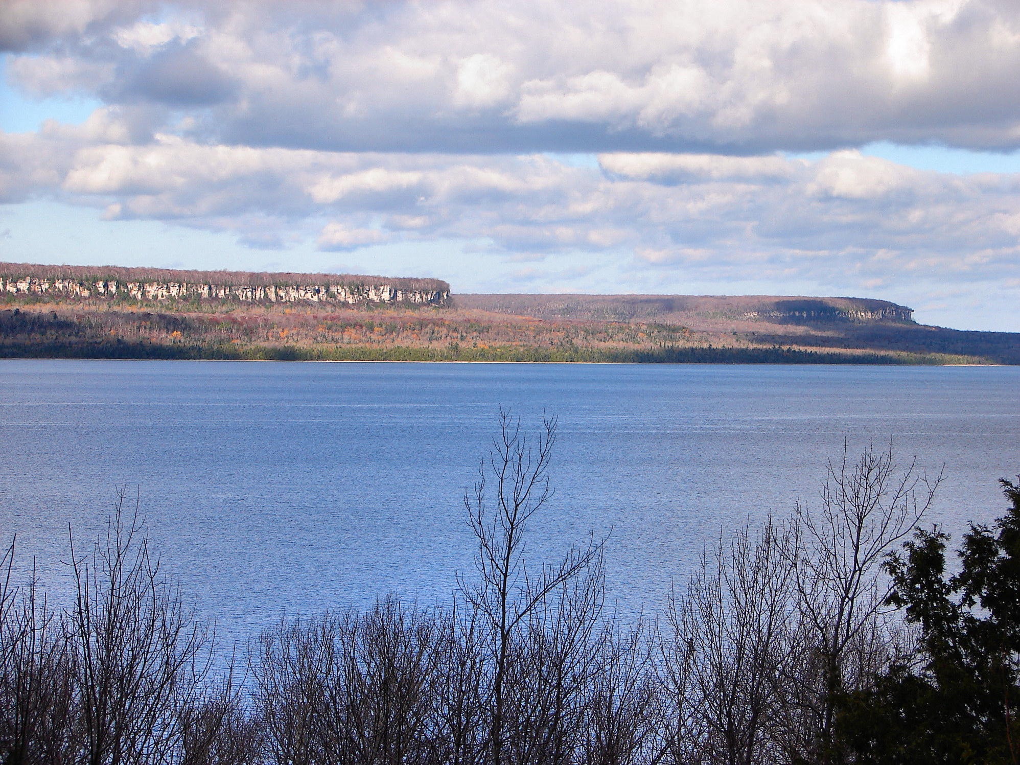 The Malcolm Bluff of South Bruce Peninsula, as seen across Colpoy's Bay (Ontario, Canada)